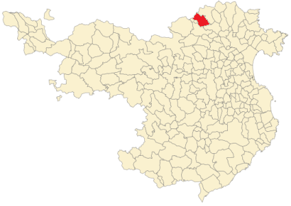 Agullana